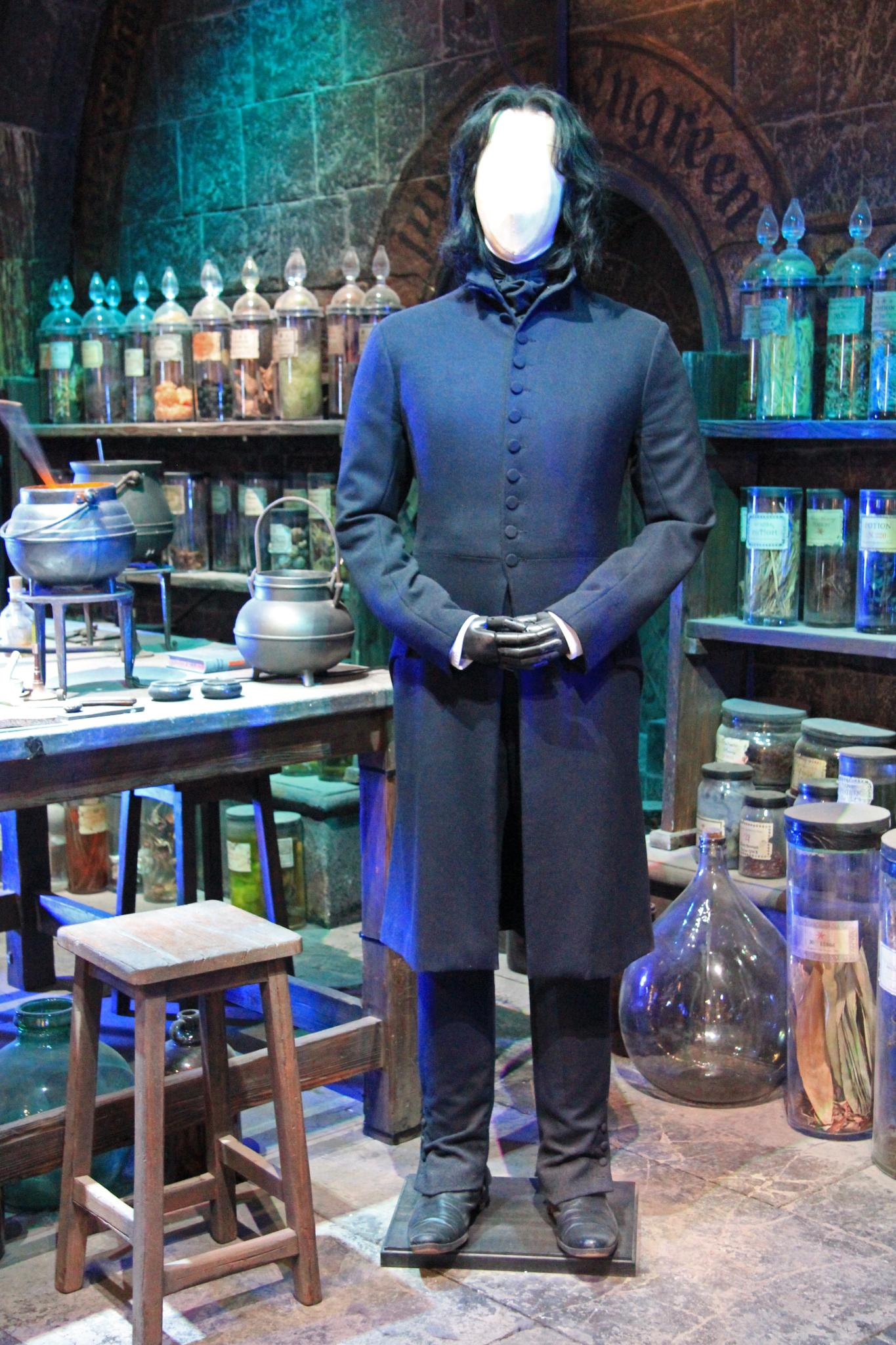 Warner Bros. Studio Tour London: The Making of Harry Potter.